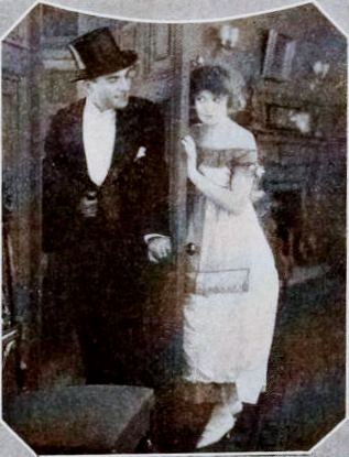 Still from the American comedy drama film Please Help Emily (1917) with Rex McDougall and Ann Murdock, cropped for publication, on page 24 of the November 24, 1917 Exhibitors Herald.